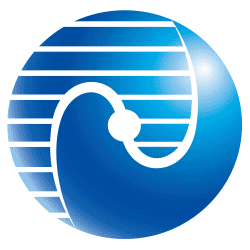 Jeung San Do Logo